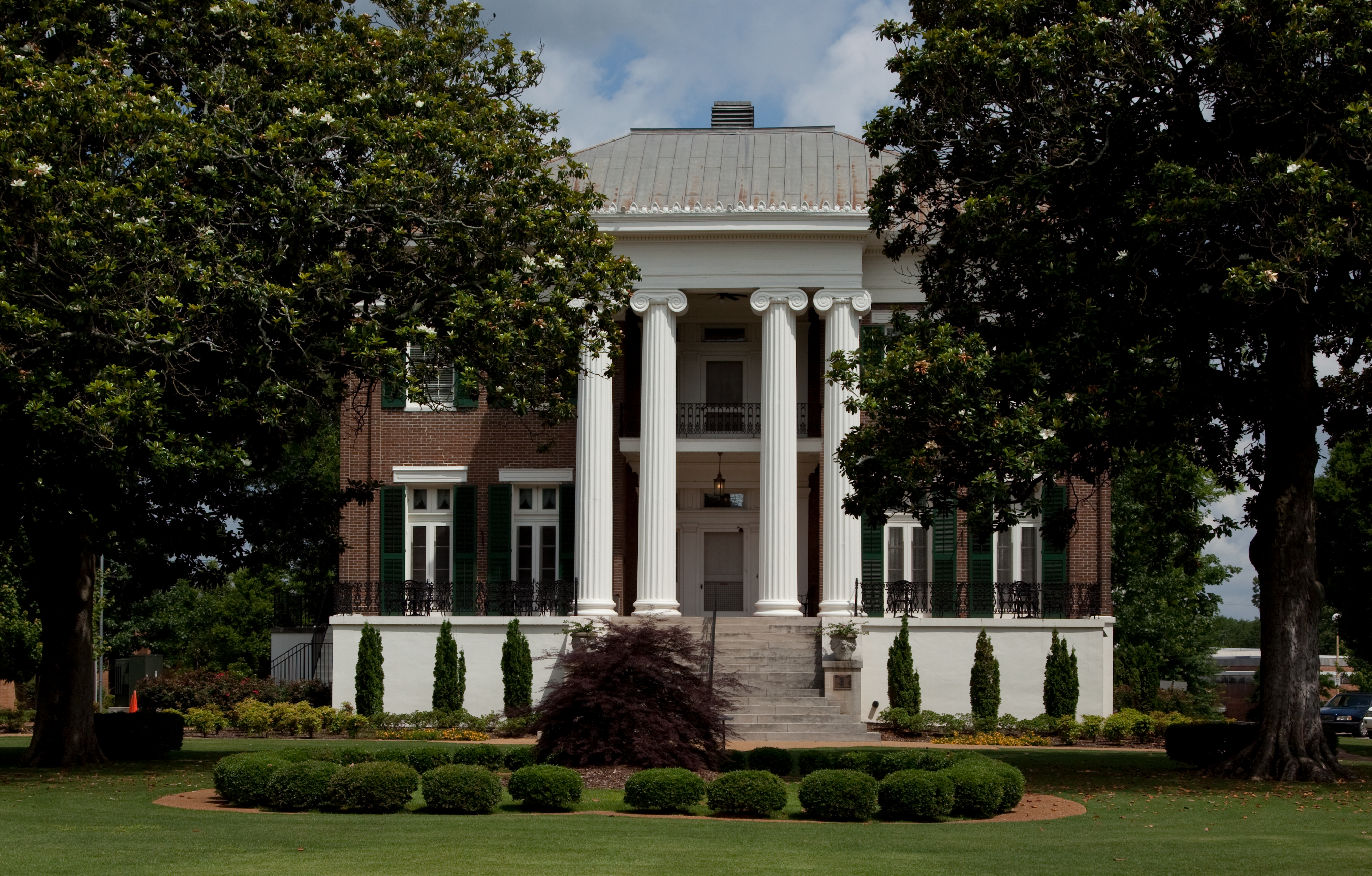 Rogers Hall, also known as Courtview and Alumni House, located at 500 Court Street, Florence, Alabama.